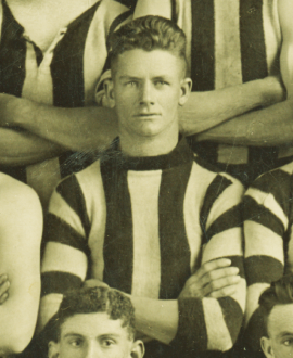 Photograph of Herbie Taylor in 1923